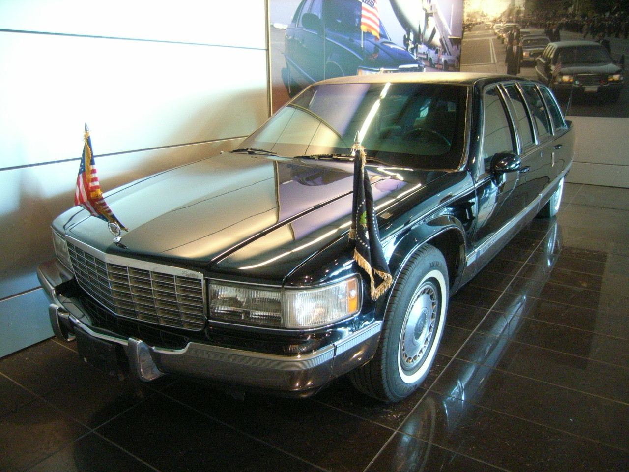 The limousine is part of an exhibit on the role of the Secret Service in the Presidency. The Cadillac limousine, which was produced by General Motors in 1993, has an armored body and armored glass. It traveled the world with President Clinton.